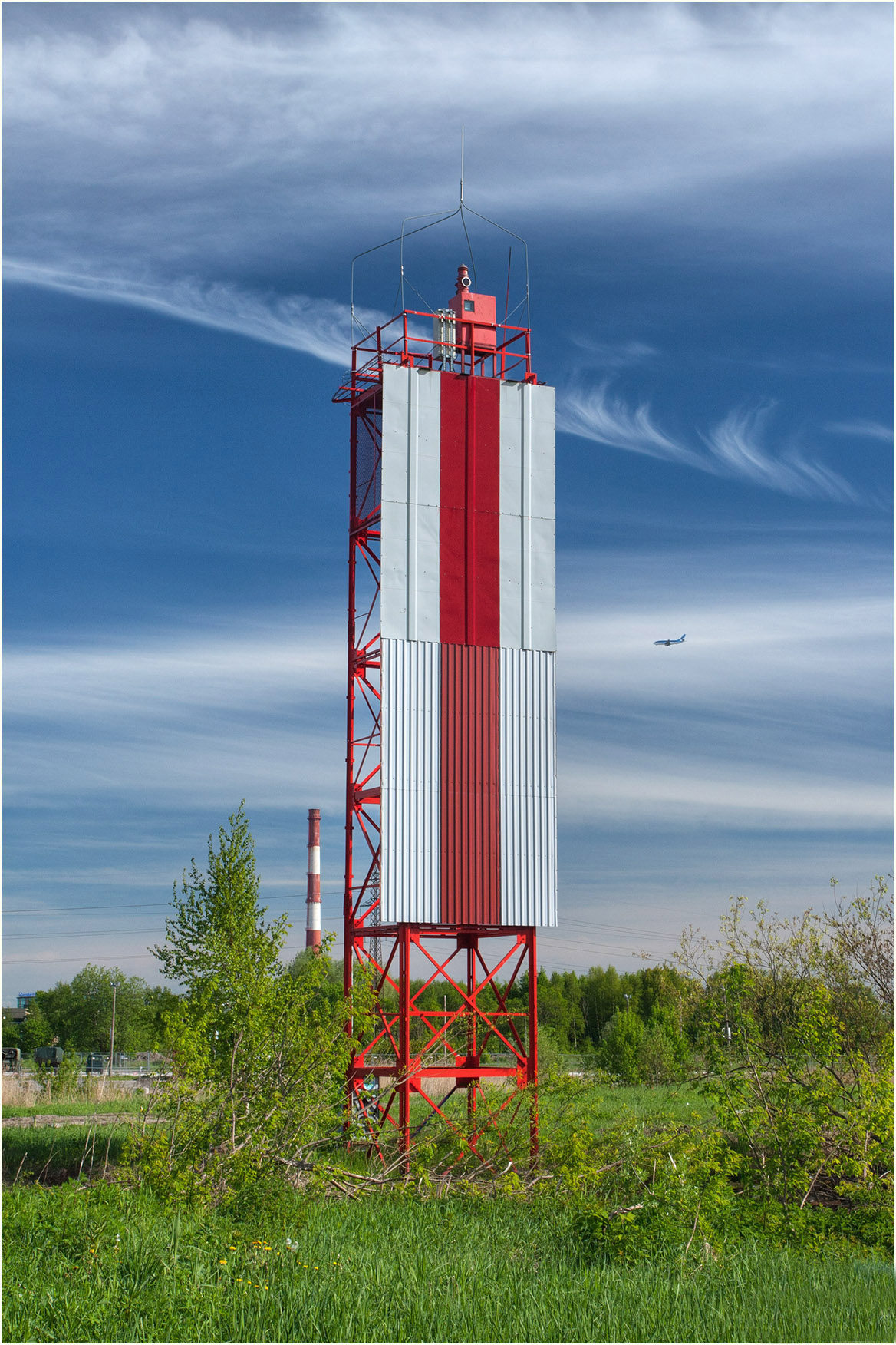 Kopli Bay rear light beacon